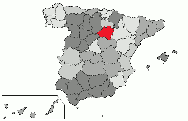 ES: Provincia de Soria EN: Province of Soria Based in: Image:ProvPont.jpg Source: Designed by Leoplus. Original picture, designed by Sobreira.